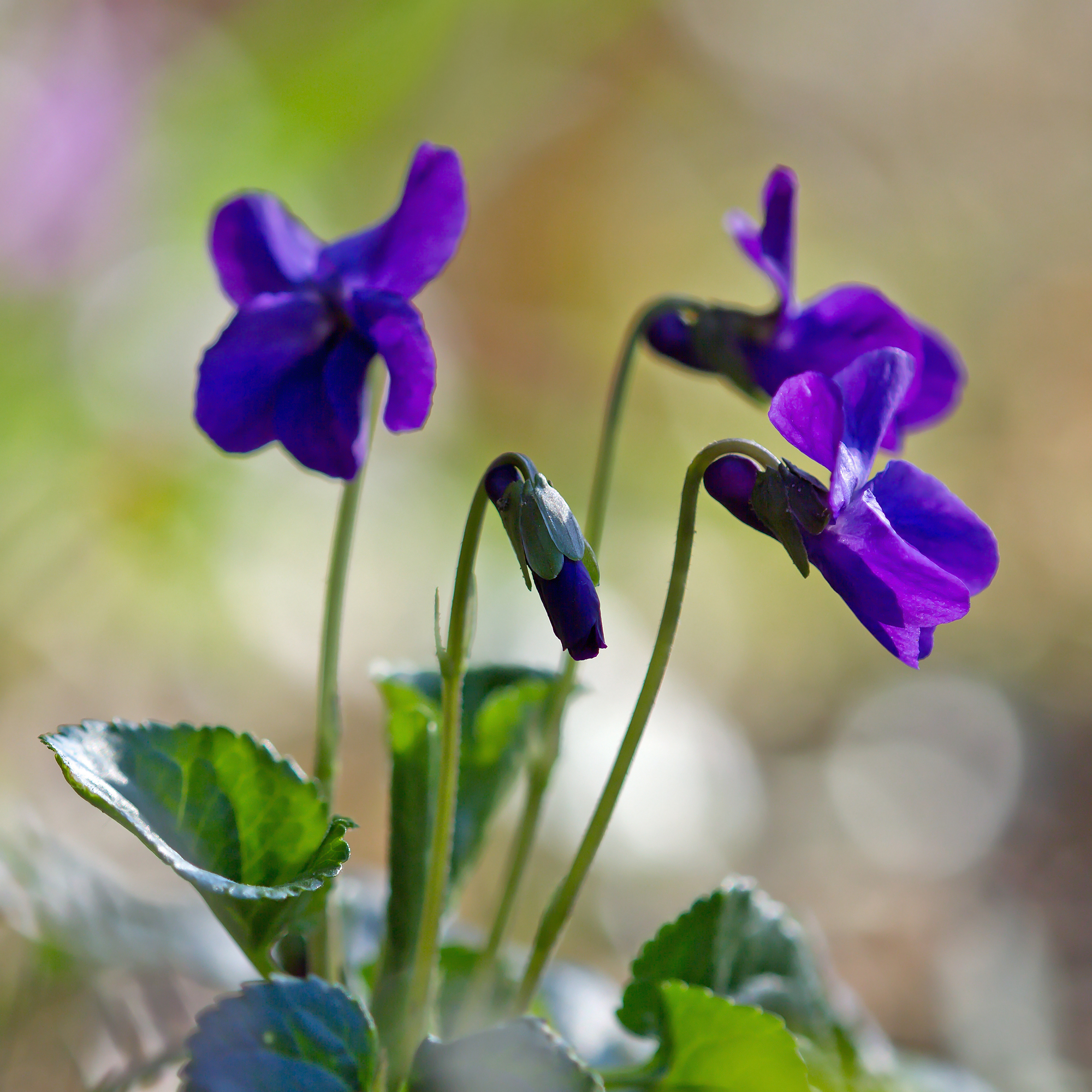 Flowering wild Sweet violet, Viola odorata, in early spring.